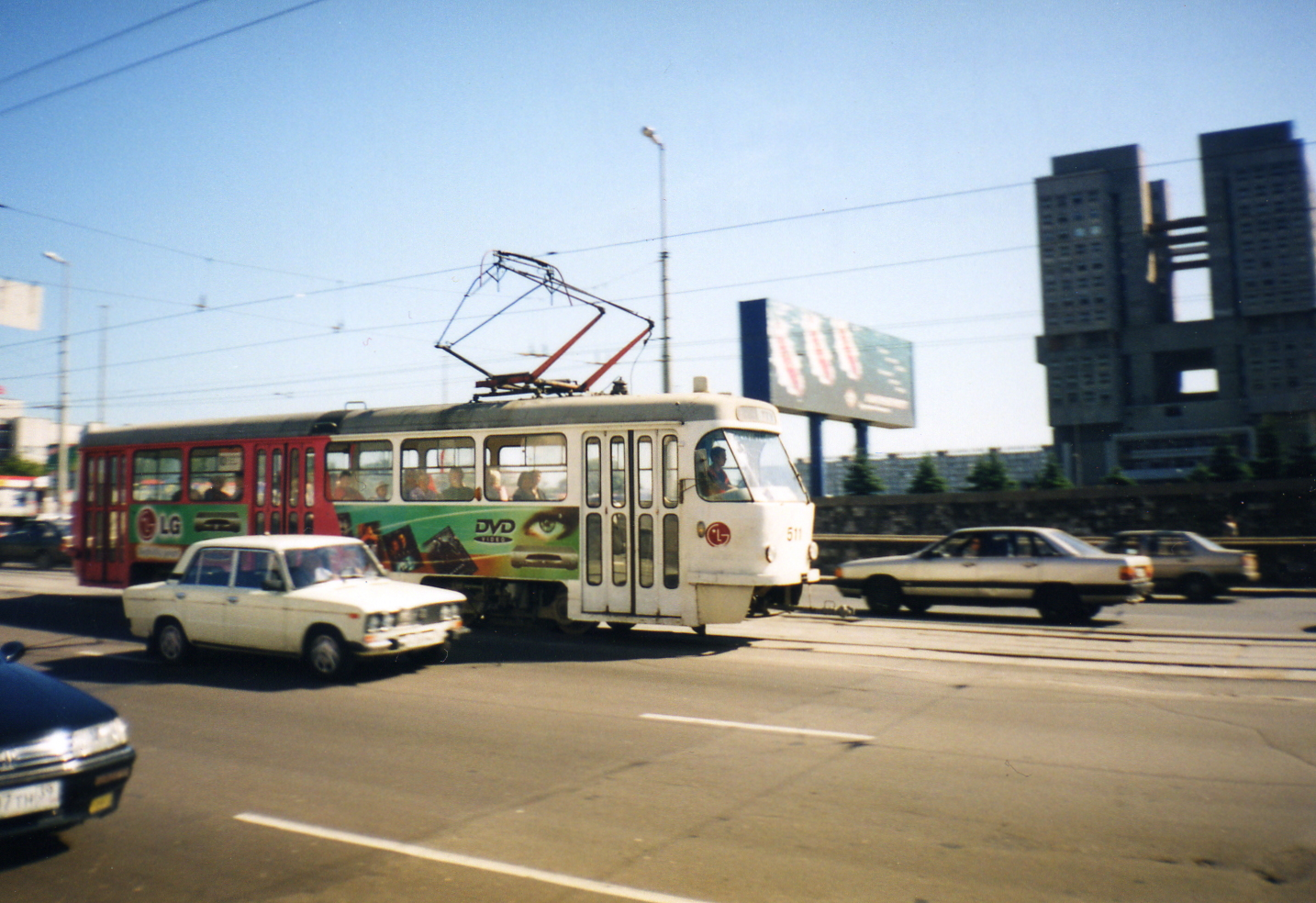 Tatra T4D tram enters the Estakadnyy bridge in Kaliningrad, Russia. This is the car No 511 on the line 10 (former Halle 969). Note "The house of the Soviets" behind